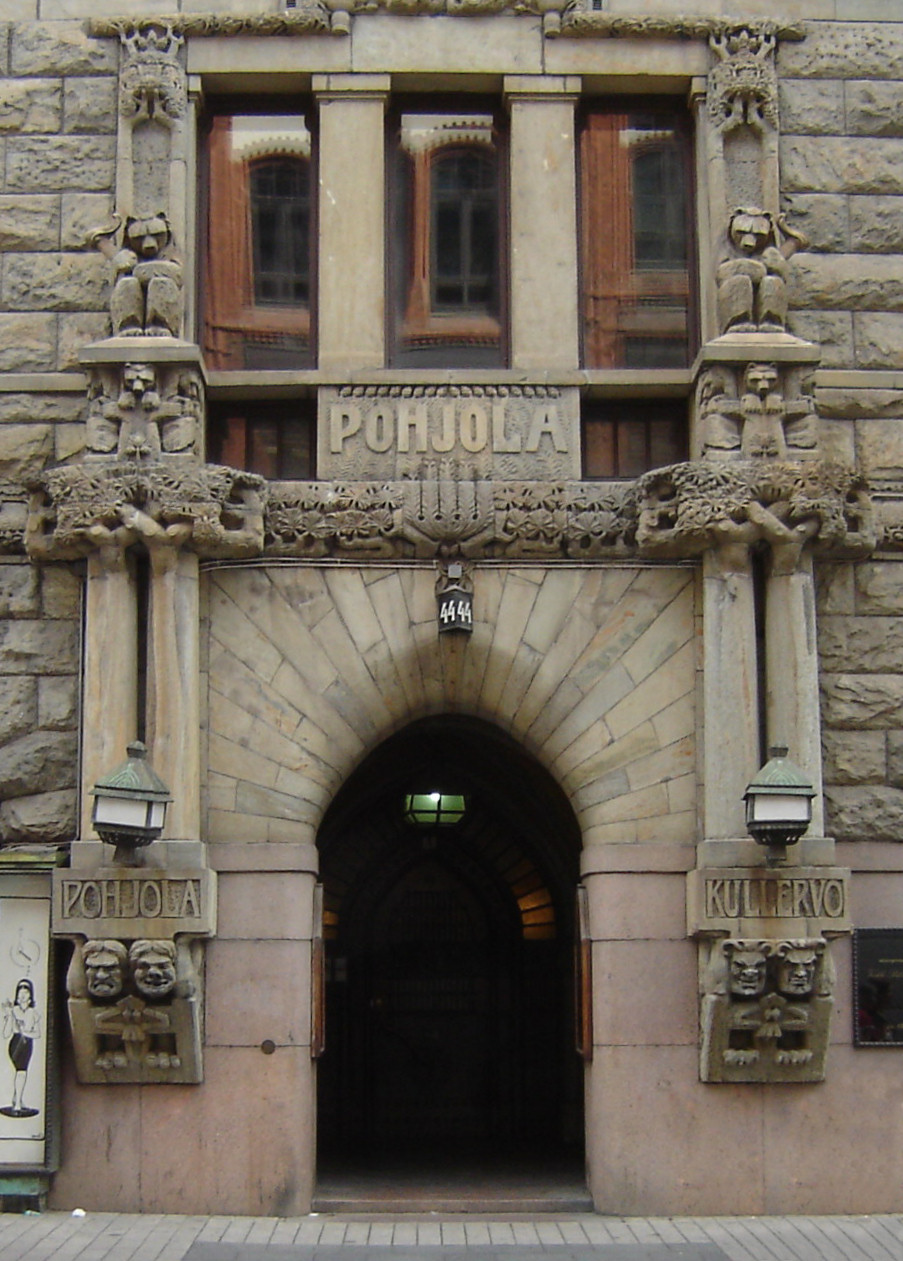 Pohjola-House, Aleksanterinkatu 44, Helsinki, Finland Architects: Herman Gesellius, Armas Lindgren, Eliel SaarinenBuilt: 1901